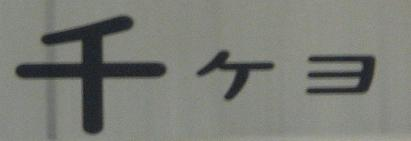 Symbol of JR East Keiyo Rolling Stock Center, marked on its rolling stock